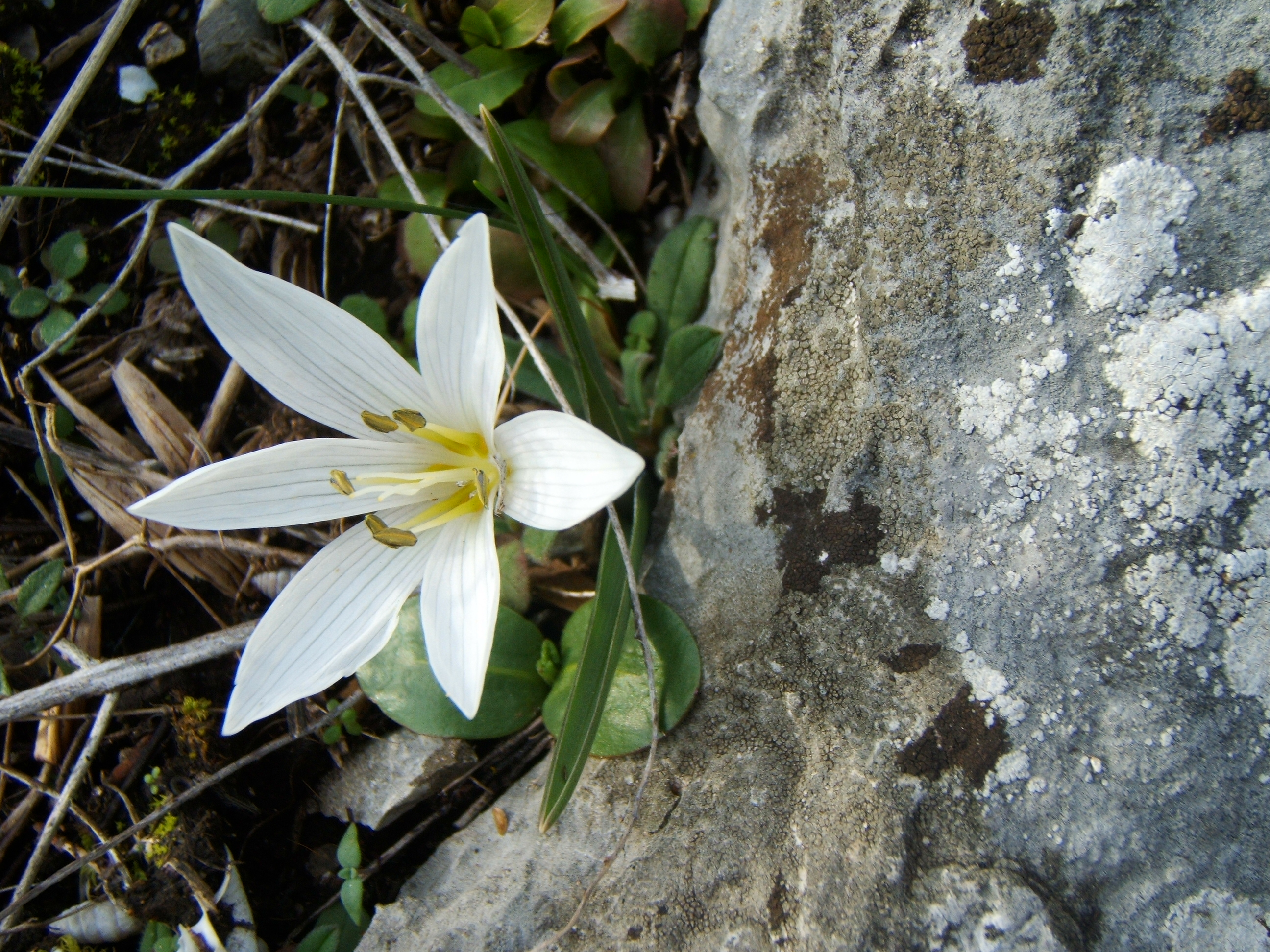 Colchicum hungaricum